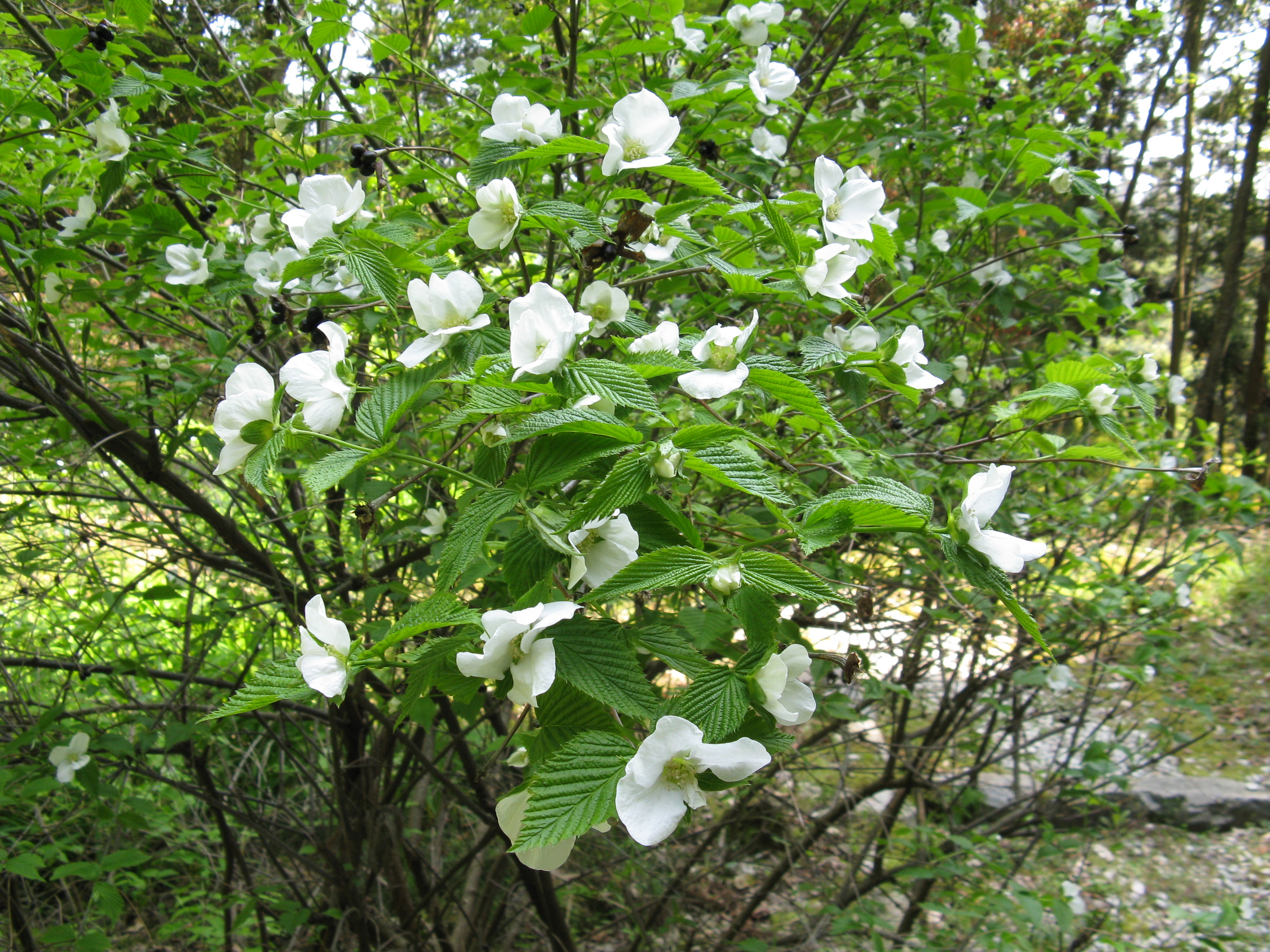 Scientific name Rhodotypos scandens